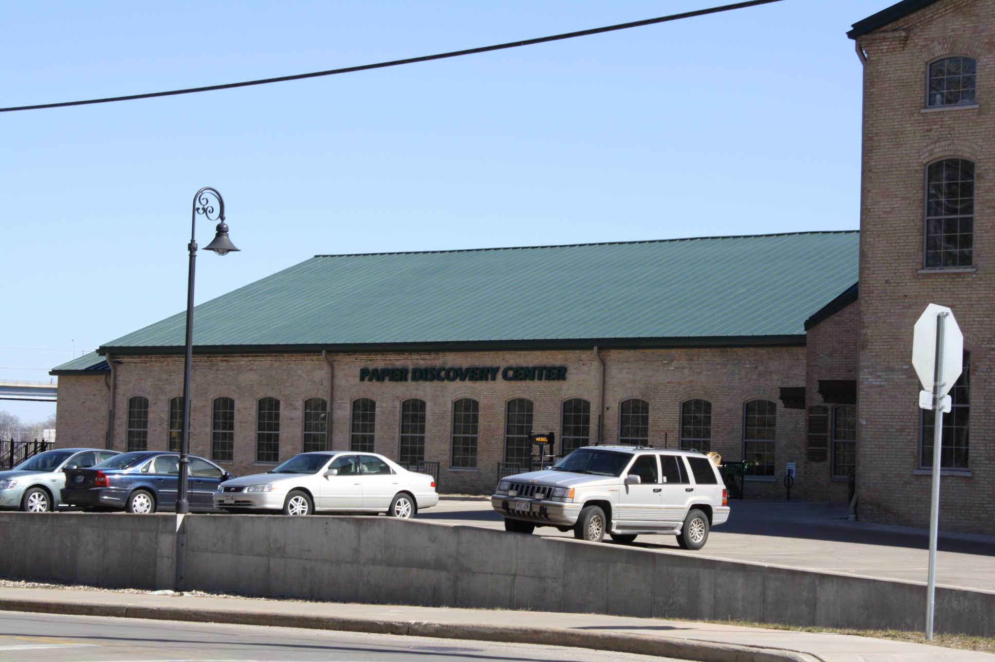 The Paper Discovery Center in Appleton, Wisconsin, along the Fox River (Wisconsin). The parking lot and building were the location for the Vulcan Street Plant, listed as a Historic Mechanical Engineering Landmarks. It was the site of the first hydroelectric power to run the Edison light system for a house.